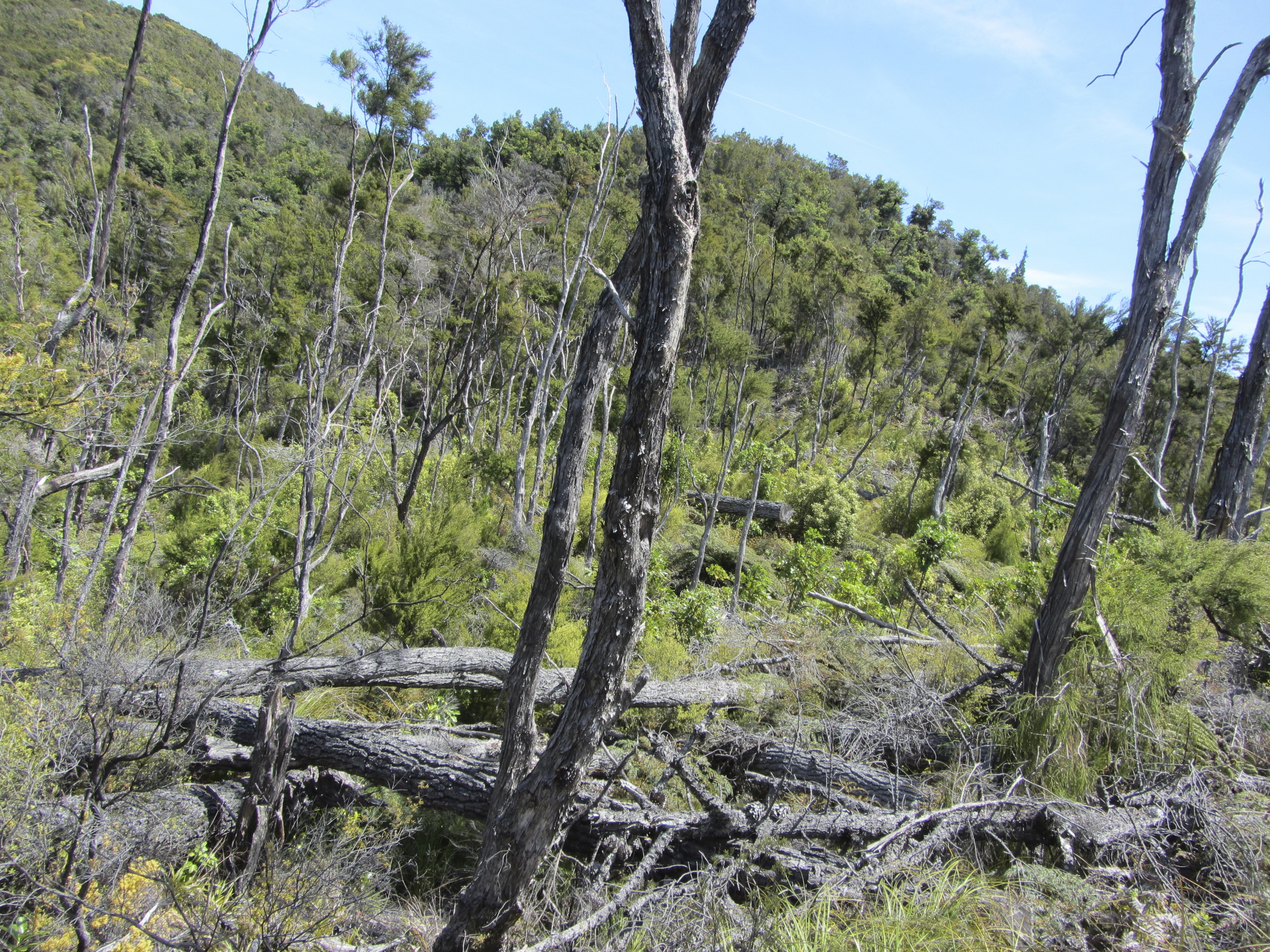 Native forest regenerating in an area that looks cleared by fire.